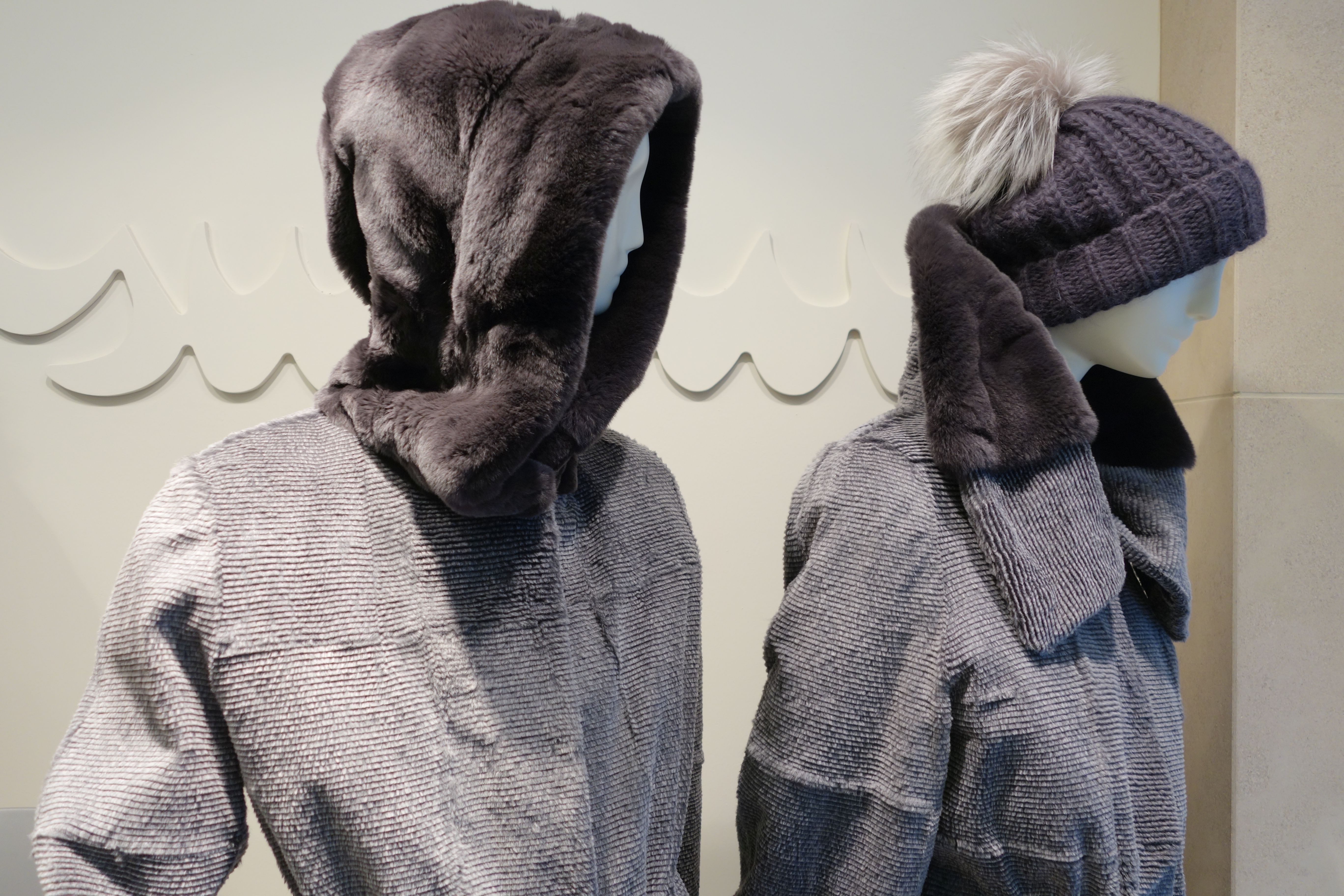 Furriers Mersmann in Münster, Germany